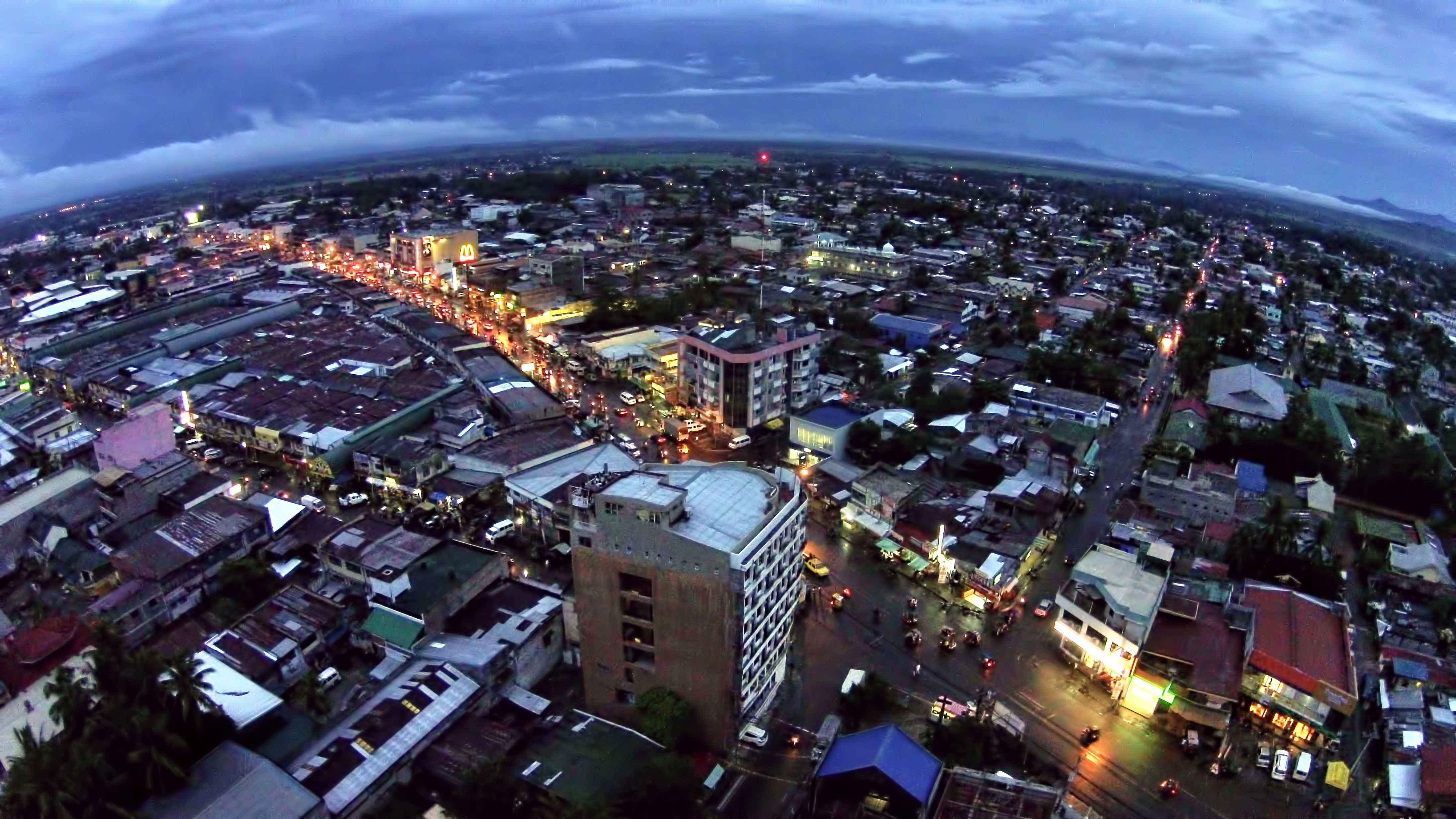 Aerial view of Santiago City in Isabela province, the Philippines, at night.